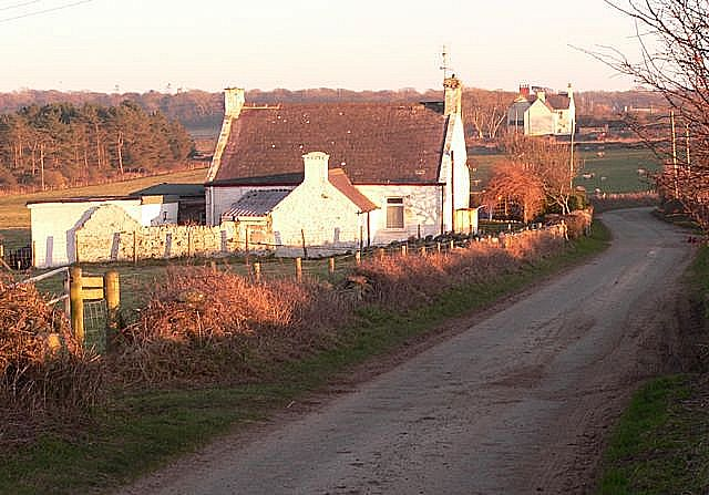 Tyddyn-teilwriaid, Bodorgan. A view of Tyddyn-teilwriaid, Bodorgan with Penrhynhalen in the distance.